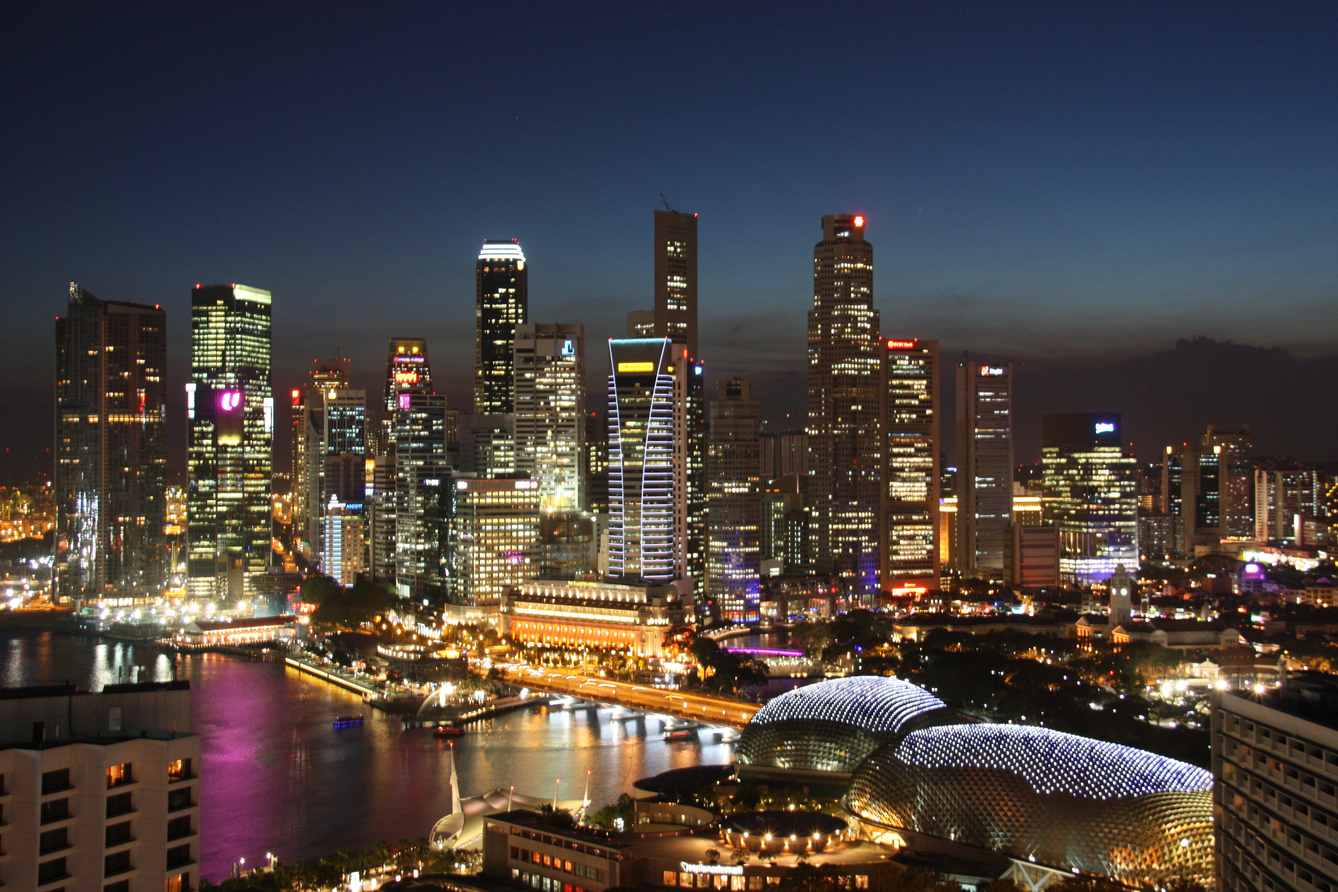 View of the Singapore Skyline.